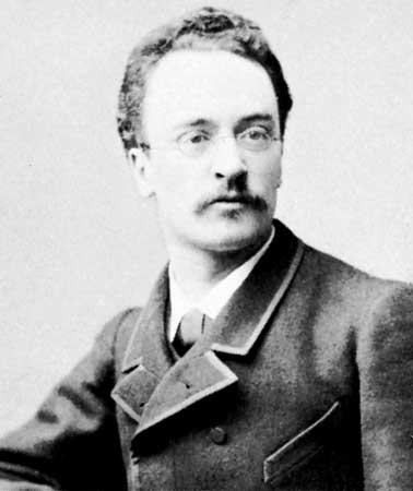 Rudolf Diesel, inventor of the Diesel engine